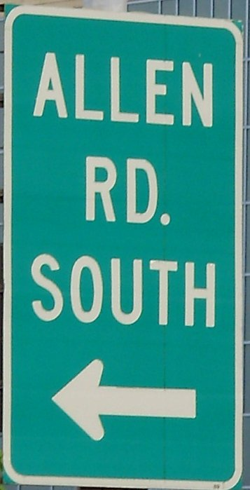 A directional trailblazer pointing to Allen Road in Toronto, Canada, found on Lawrence Avenue West.